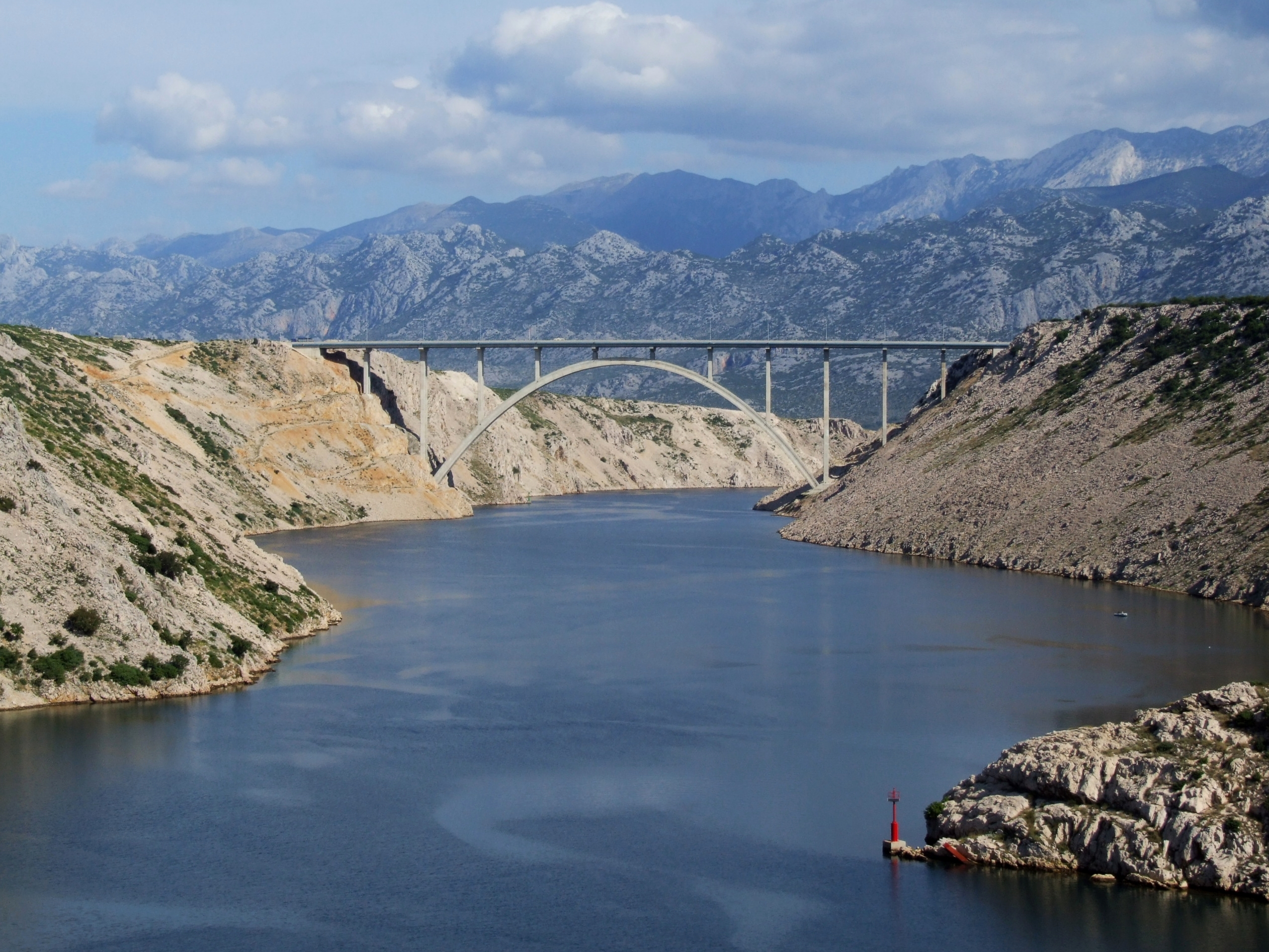 New Maslenica Bridge, Croatia.